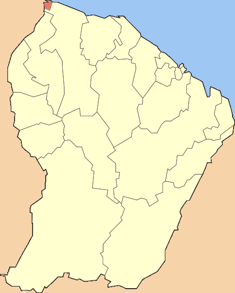 Made map myself.